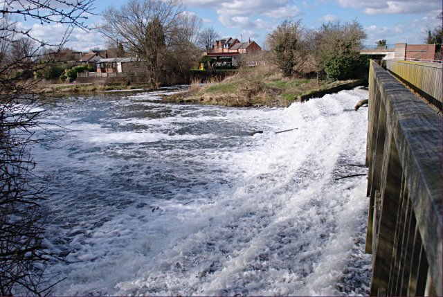 Zouch Weir. This weir on the River Soar is in two parts. The other part (behind the trees in the picture) can be seen here 6425.